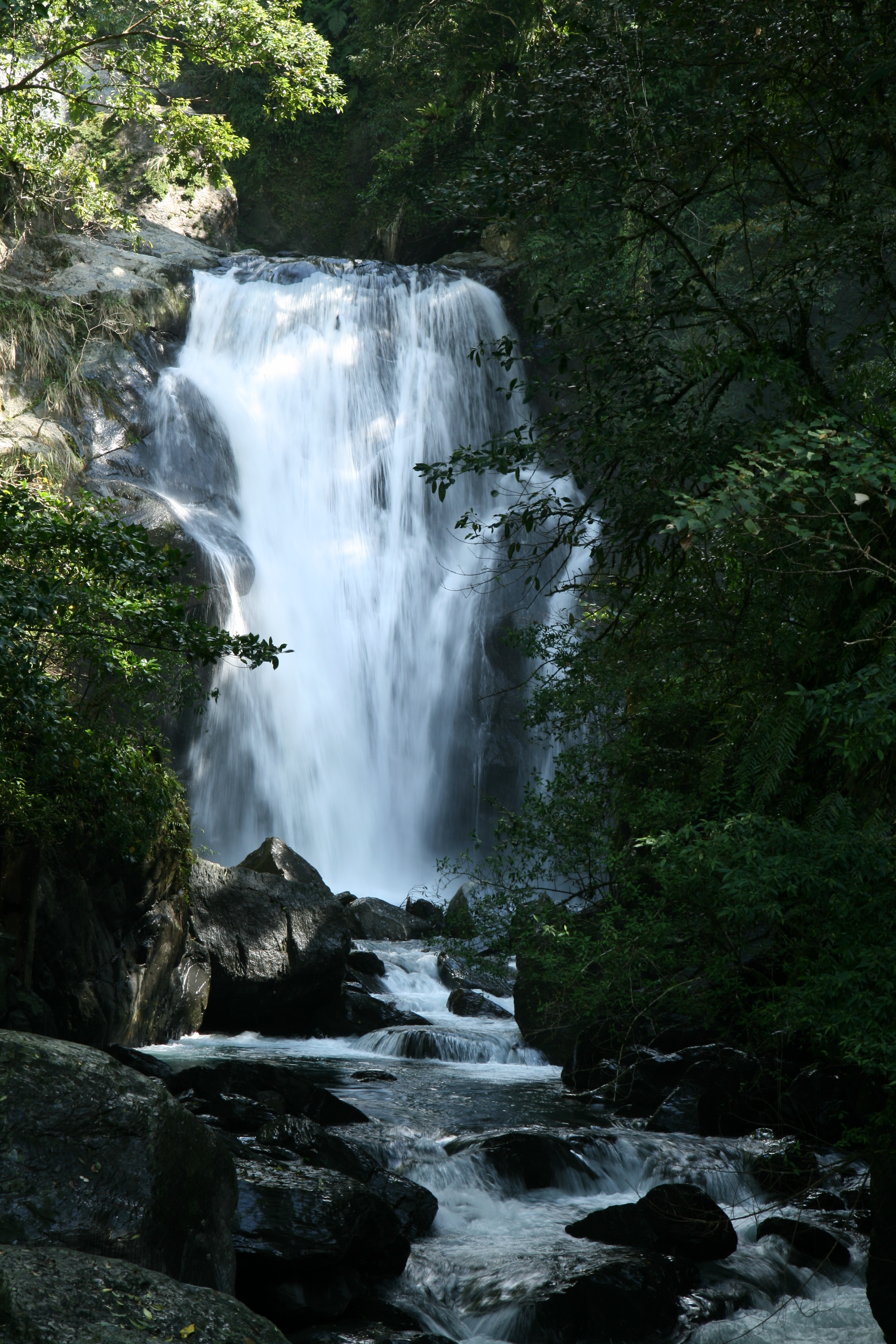 The Upper Deck Waterfall in Wawa Valley